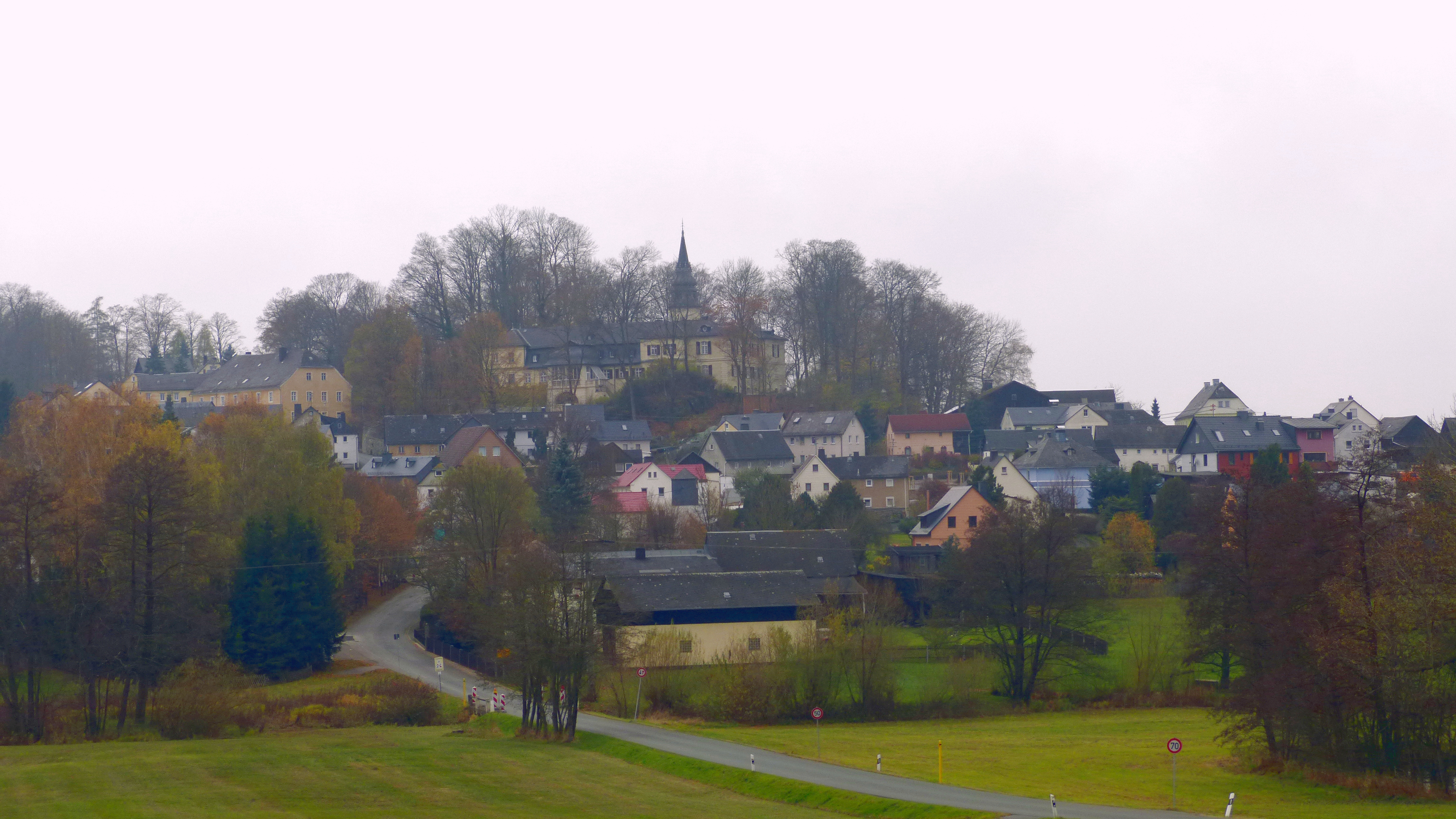 View of the frankonian Village Reitzenstein